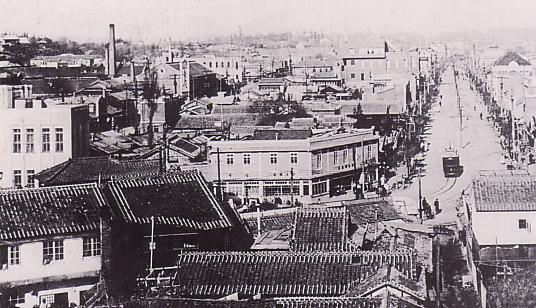 View of Heijo(Pyongyang)